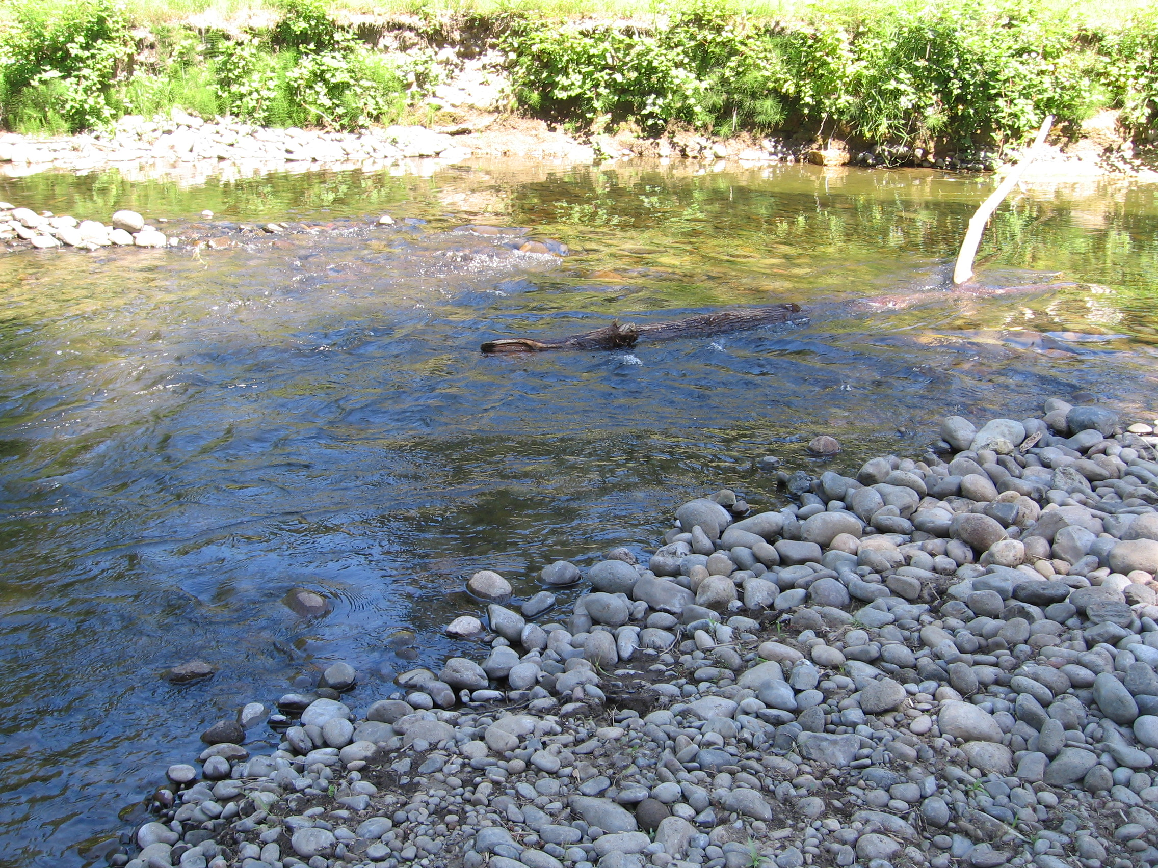 Eagle Creek, a tributary of the Clackamas River, at Bonnie Lure State Recreation Area in Clackamas County, Oregon, United States